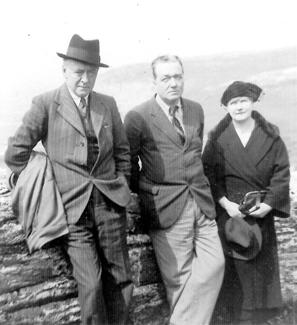 The two composers (Arnold Bax and Ernest John Moeran) were friends of the Fleischmann family from 1929.